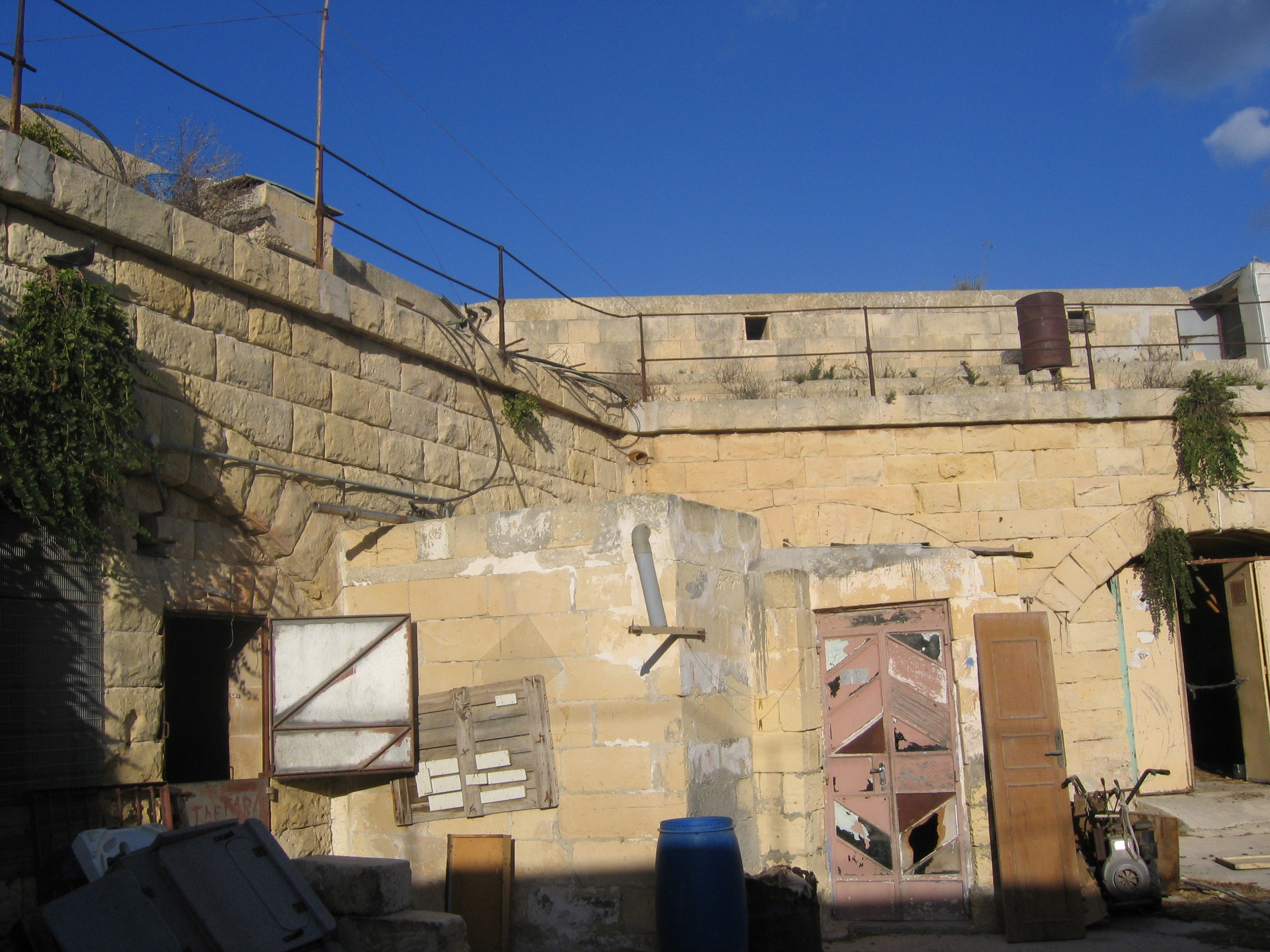 Inside the inner fort. Fort Leonardo, Malta. Copyright 2005 H.J Moyes